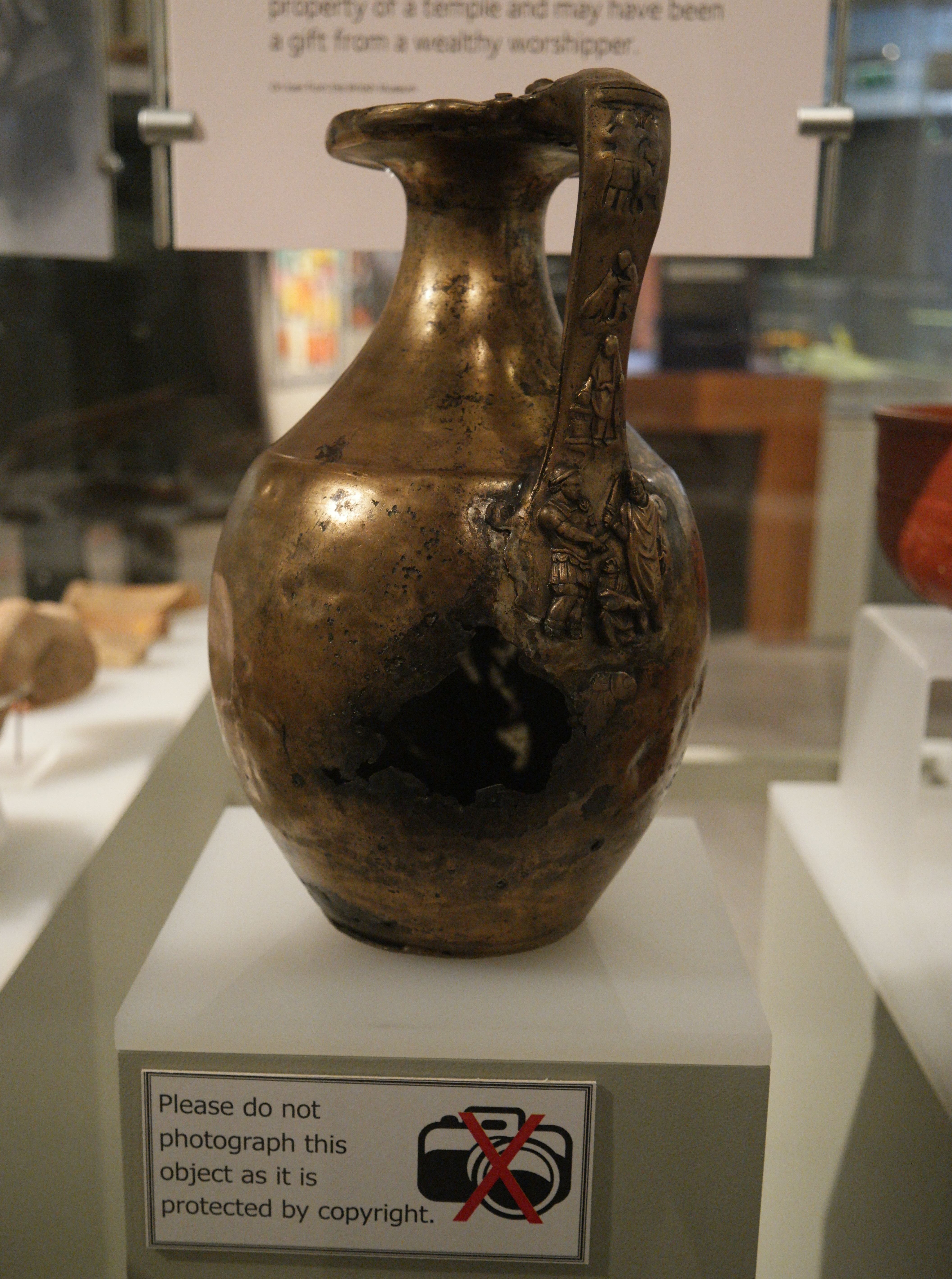 Bronze jug held by the British Museum, on exhibition in the Tullie House Museum and Art Gallery. It is displayed above a tag stating a fraudulent claim of copyright. Please refer to Copyfraud in order to understand its use here, to highlight the museum's unjustifiable claim of intellectual property rights. The handle has figures of a soldier and priest preparing to sacrifice a pig. The artwork suggests the jug was the property of a temple. The British Museum database gives a findspot of Carlisle.